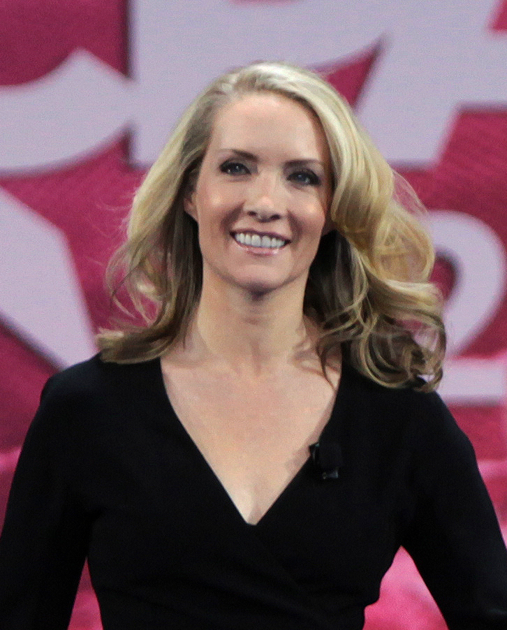 Dana Perino speaking at the 2016 Conservative Political Action Conference (CPAC) in National Harbor, Maryland.